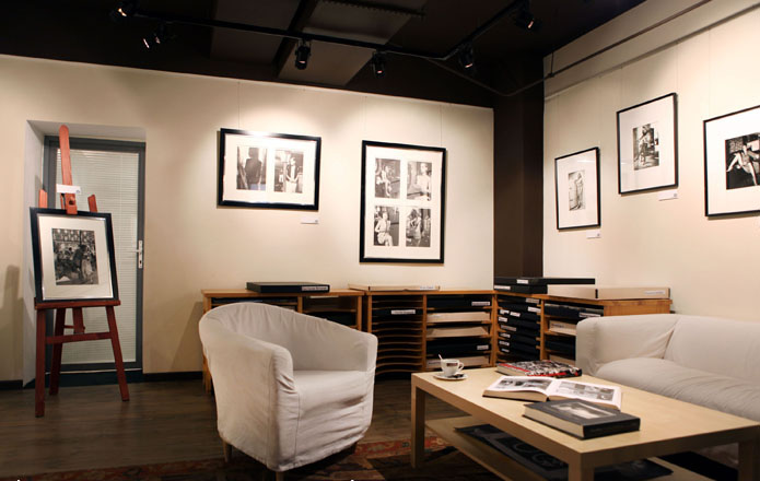 Red October Photo Gallery